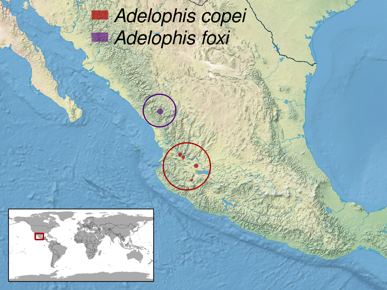 geographic distribution of the genus Adelophis (included species for RDB: A. copei and A. foxi)